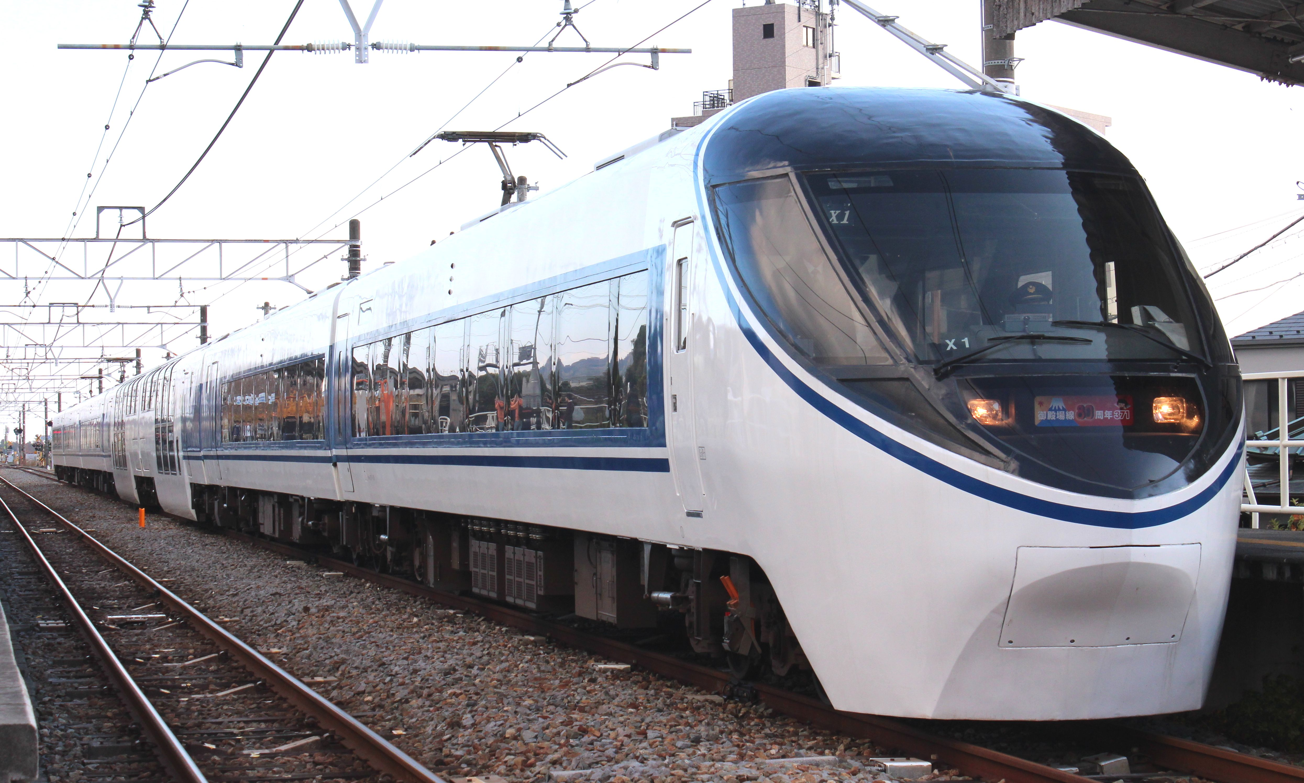 The JR Central 371 series EMU set X1 at Kami-Ōi Station on a special Gotemba Line 80th anniversary special service, the last day that this set ran in public service